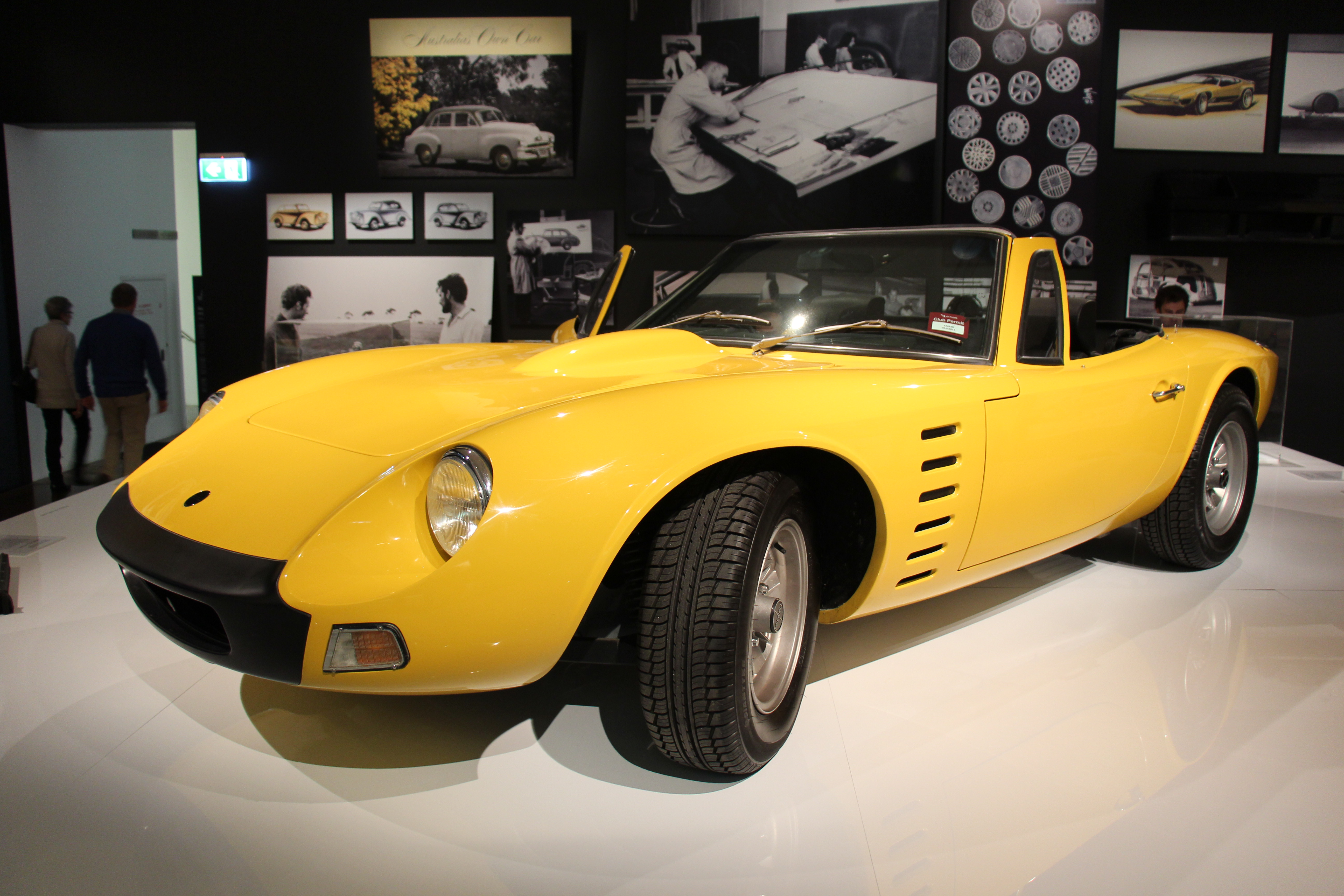 Bolwell was an Australian company that produced sports cars between 1962 and 1979 The 1st, 1962-64 Mk IV was a kit car, offered as a coupe with gull wing doors and as an open sports car. Over 200 were produced. Then the 1964-66 Mk V was a coupe using mostly Holden components. 75 were made. The 1968 Mk VI, also known as the SR6, was a 1 off mid-engined sports racing car. The 1967-72 Mk VII, a 6 Cyl Holden powered coupe, 400 made, Then this car, the 1970-74 Mk VIII Nagari, Ford V8 powered, initially offered in coupe only, a convertible being available from 1972. 100 coupes and only 18 convertibles produced Engine; 220bhp 302 Ford V8 Photographed at the Shifting Gear Exhibition in Melbourne